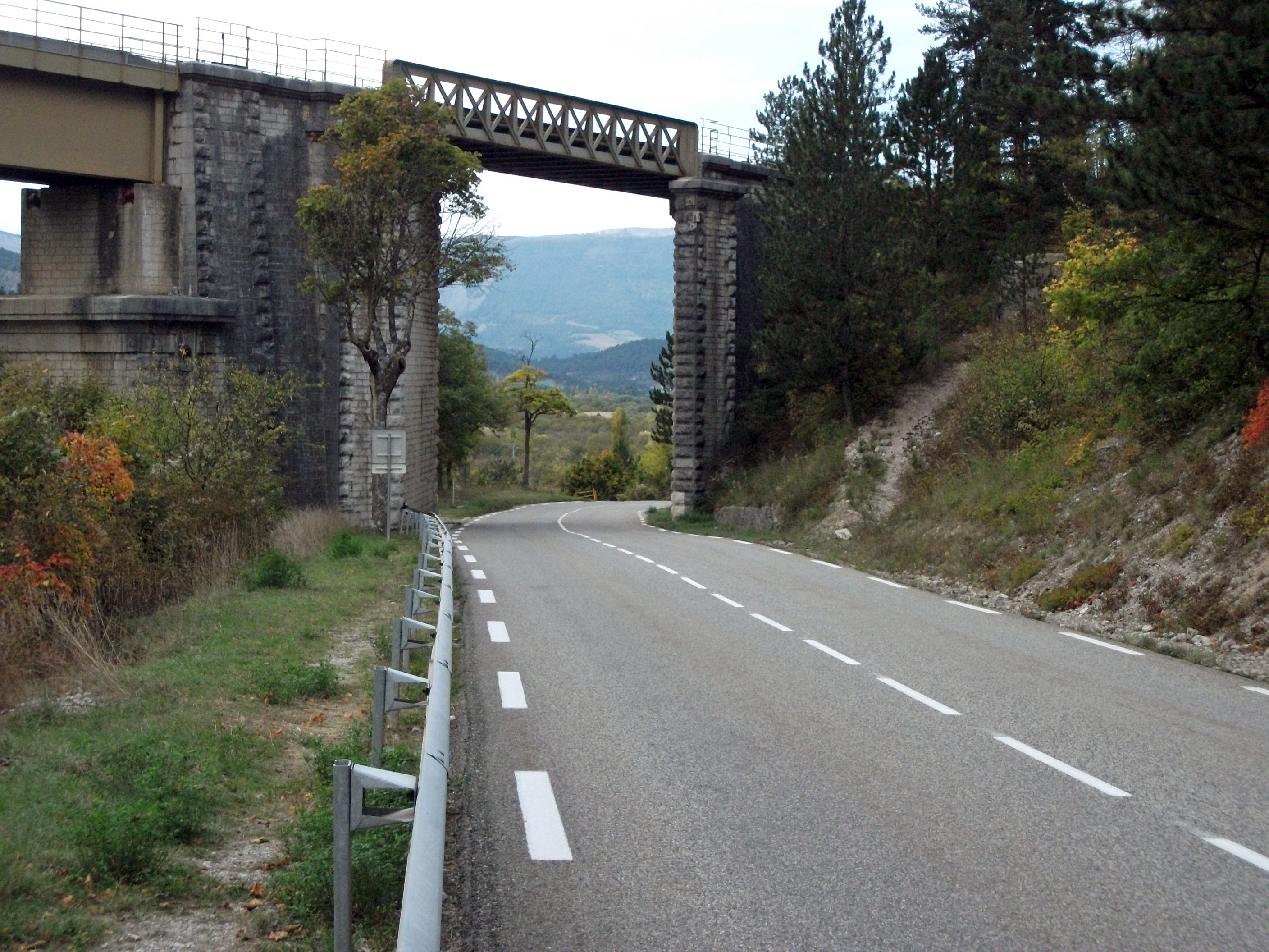 Departmental road 93 (former route nationale 93), 1.5 km (0.9 mi) in the south-south-east of Luc-en-Diois, towards Valence, passing under railway Livron–Aspres (closed). Luc-en-Diois railway station is located more than one kilometer by road.